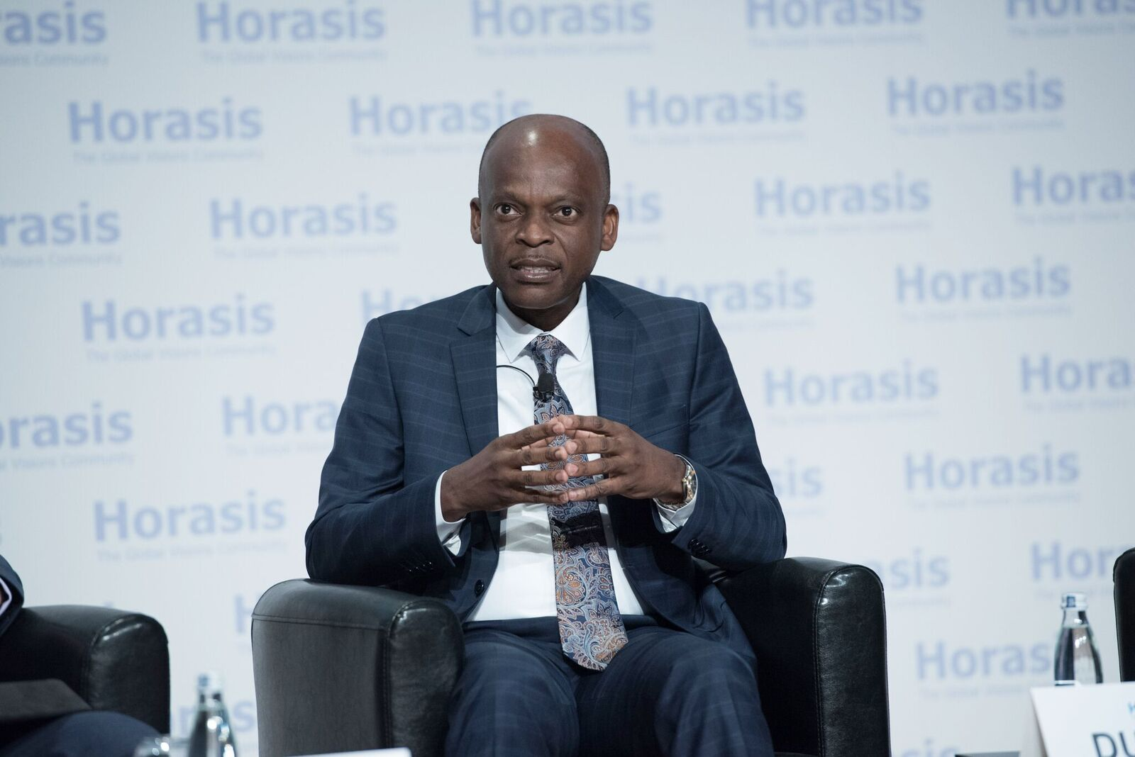 2018 Horasis Global Meeting, Cascais, Portugal, 5-8 May